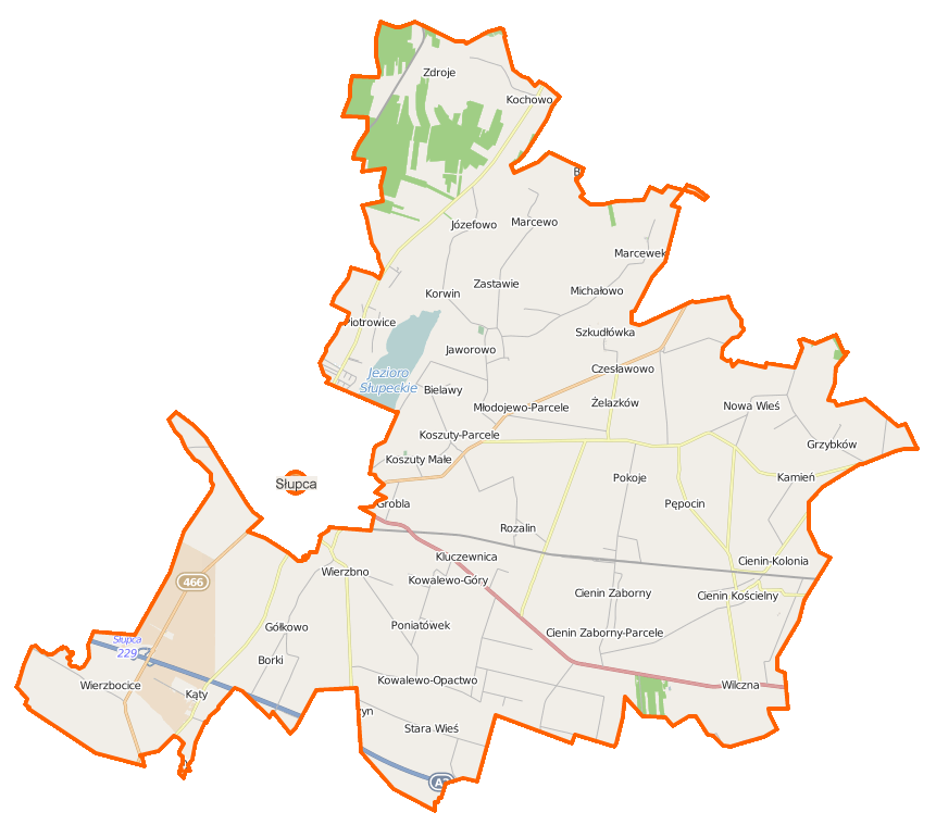 Map of Gmina Słupca, Poland This map of Słupca (gmina wiejska) was created from OpenStreetMap project data, collected by the community. This map may be incomplete, and may contain errors. Don't rely solely on it for navigation. Border coordinates52.380417.7779←↕→18.073952.2211